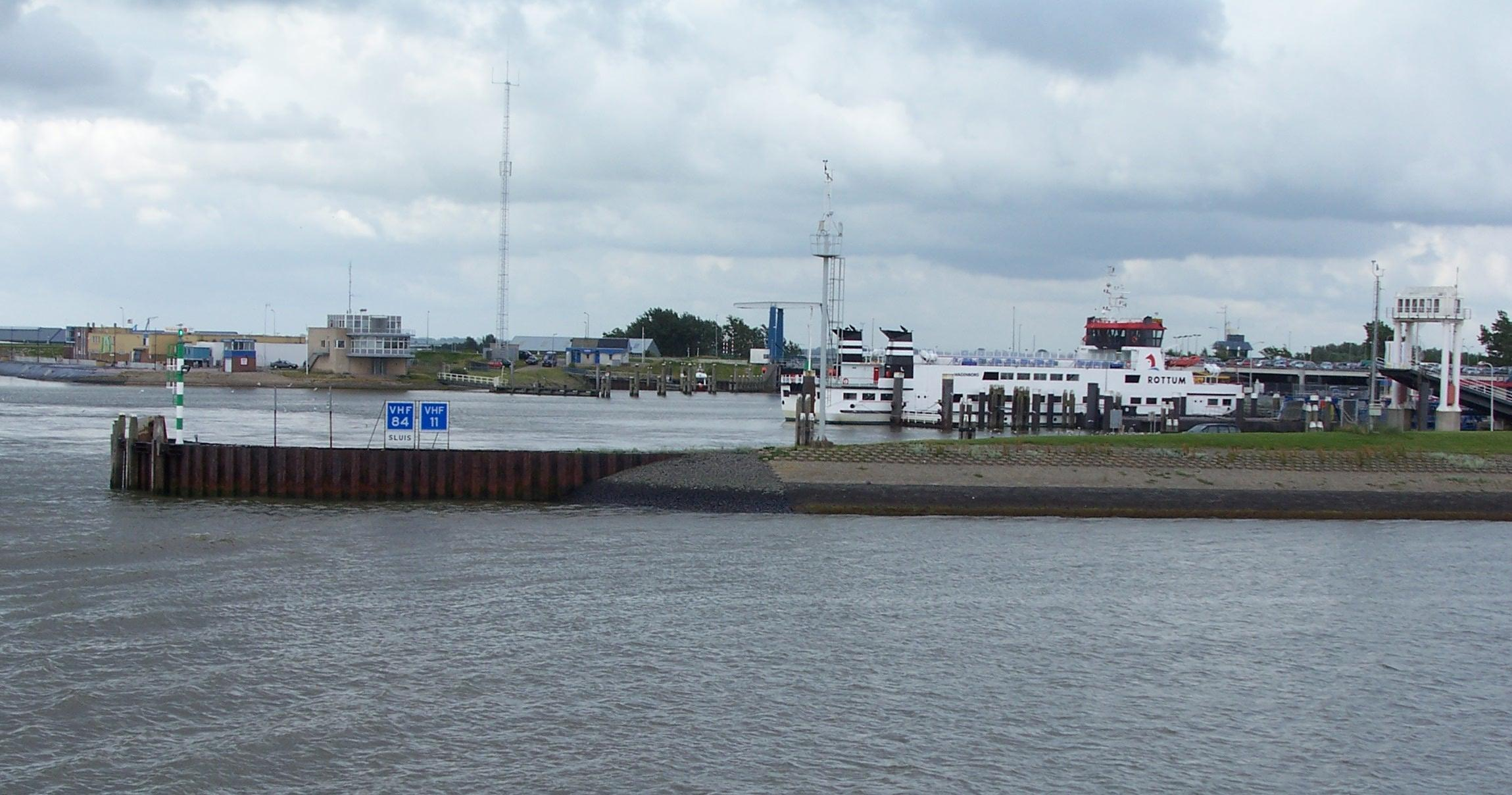 Lauwersoog harbor